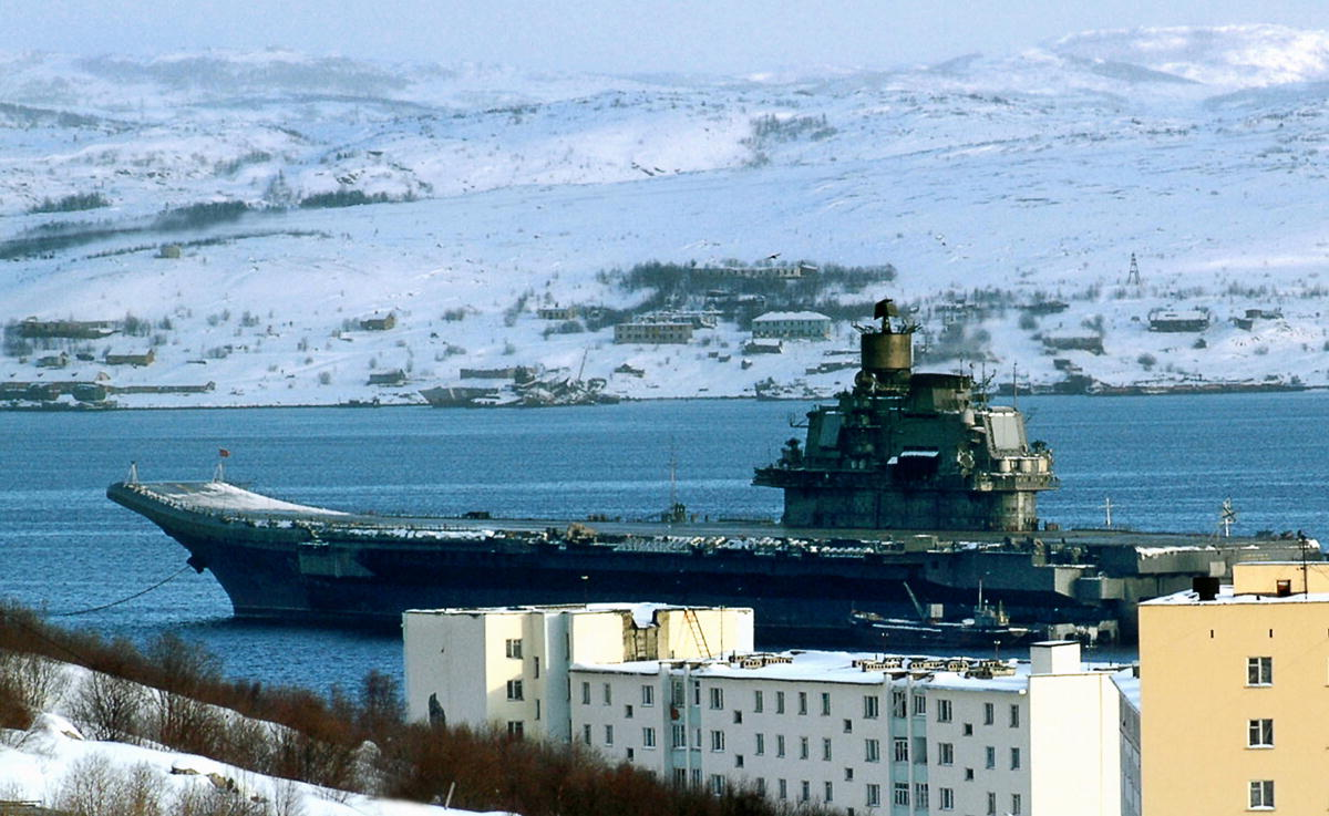 Aircraft carrier "Admiral Kuznetsov" in the Kola bay.